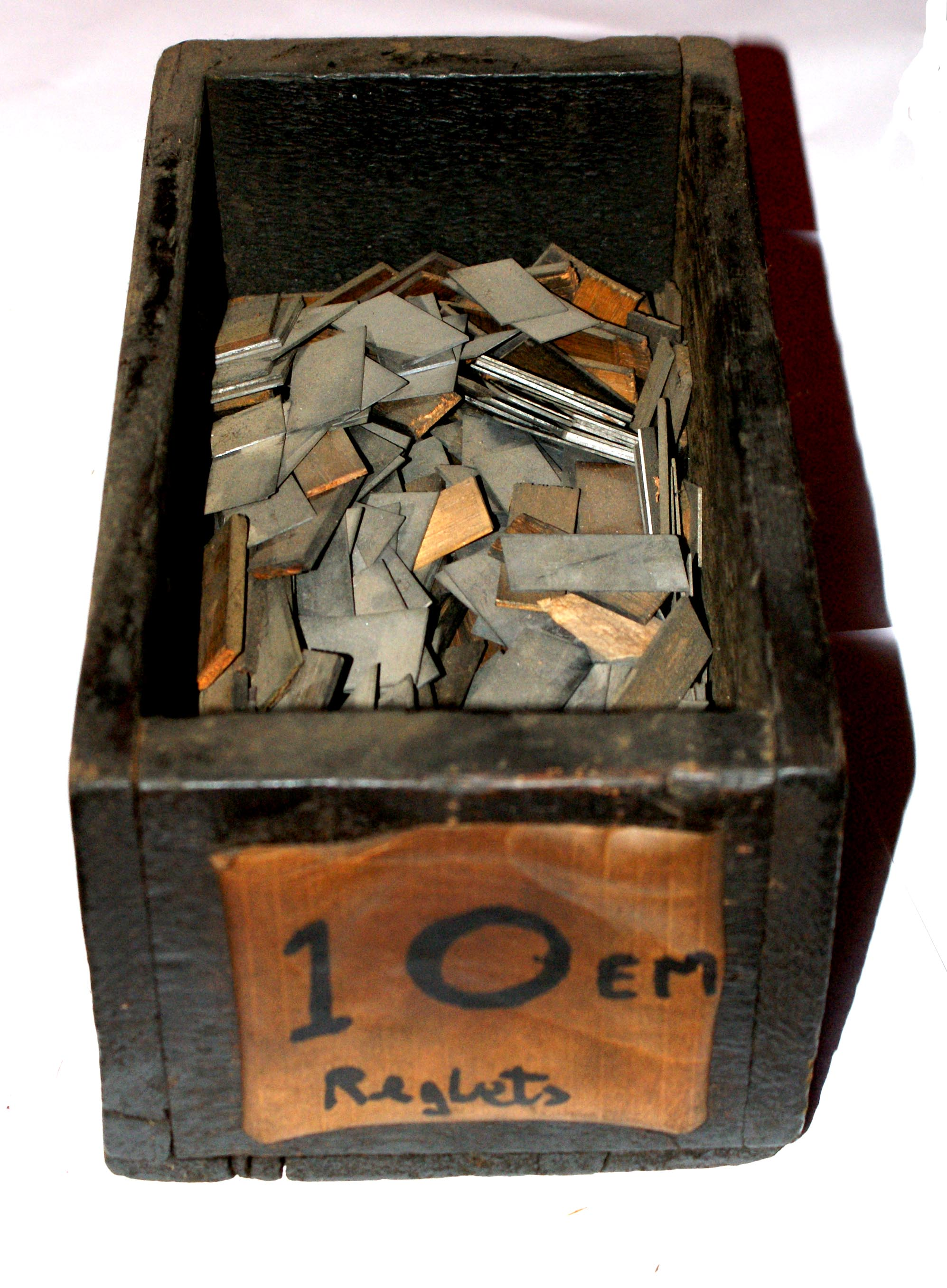 Wooden open top boxes containing furniture and leading to secure type in chase. SH.2009.397.7 18em reglets. SH.2009.397.8 10pt leaders. Accession Number: SH.2009.397.7-8 Furniture is pieces of wood or metal used in the make-up of a forme where margins or other white spaces are required. An em is a unit of measurement in the field of typography, equal to the point size of the current font. A reglet is a strip of oiled wood used for spacing between lines of metal type This item is on display at the Writer's Museum, Lady Stairs Close, Edinburgh. Edinburgh City of Print is a joint project between City of Edinburgh Museums and the Scottish Archive of Print and Publishing History Records (SAPPHIRE). The project aims to catalogue and make accessible the wealth of printing collections held by City of Edinburgh Museums. For more information about the project please visit